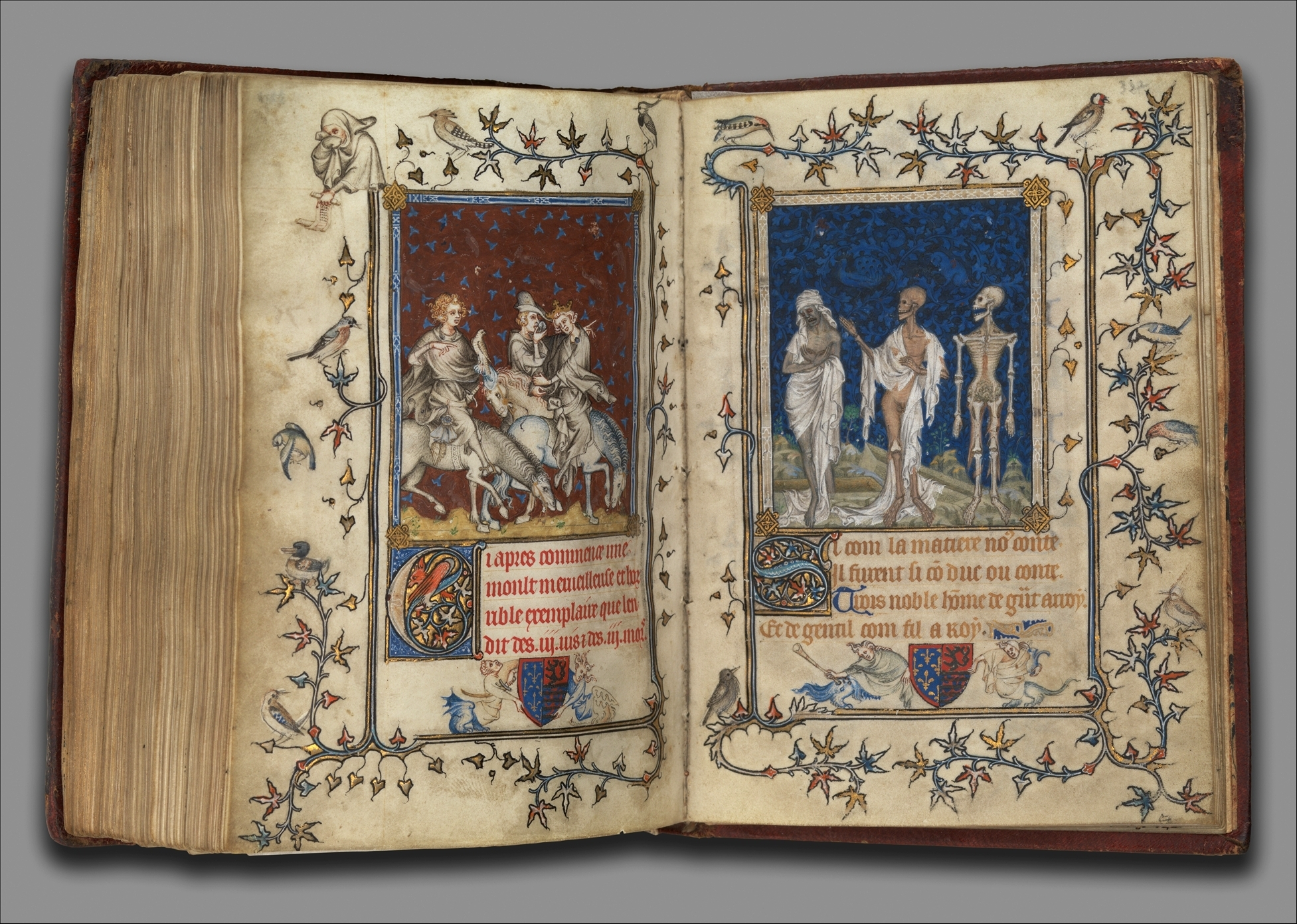 Jean Le Noir. Miniature from Psalter of Bonne of Luxemburg 1348-49 Metropolitan Museum, N-Y